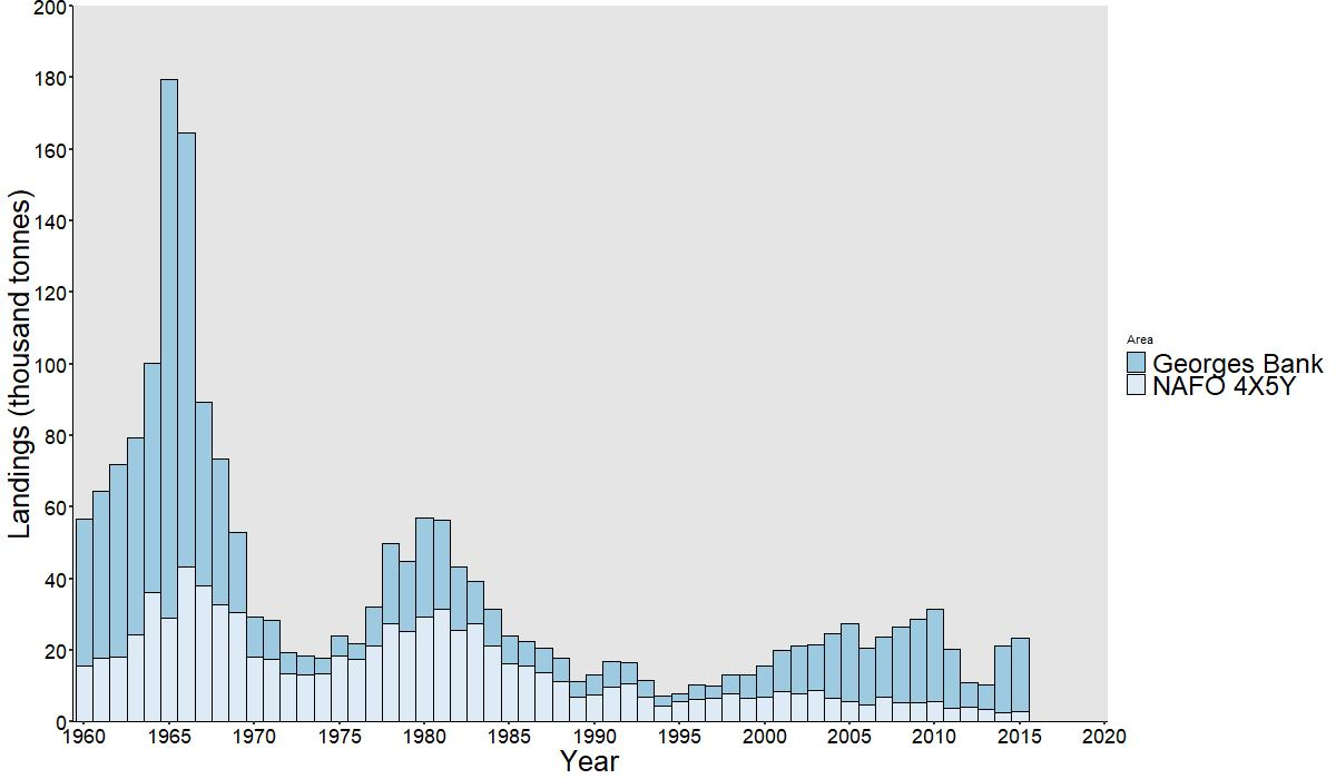 Landings of haddock in the western Atlantic.